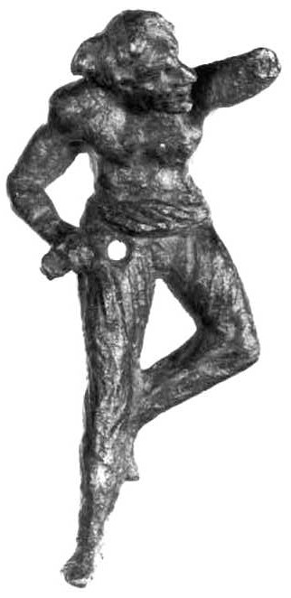 is only one recumbent application with nodus found in Apt, France. 39 It is a 12,5 cm long piece depicting a fallen Germanic, at the right hip there is a small hole for the fitting